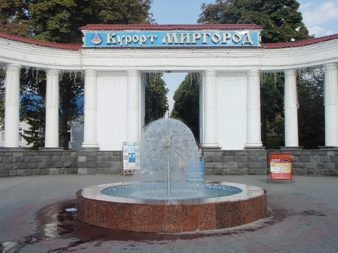 Main entrance to Myrhorod Resort — Ukraine, Poltava Region. Architect: Arkady Langman